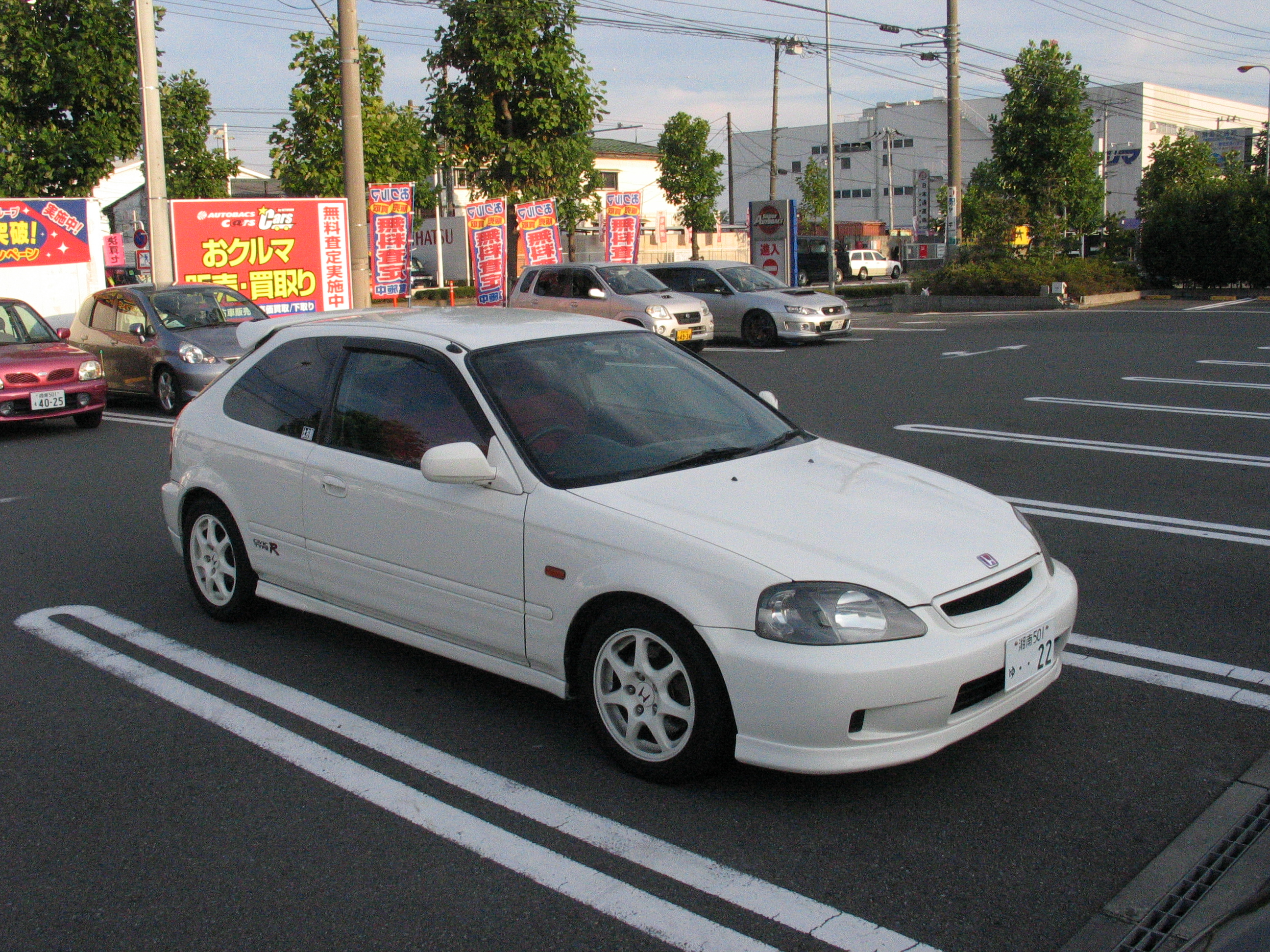 A photo of my own car